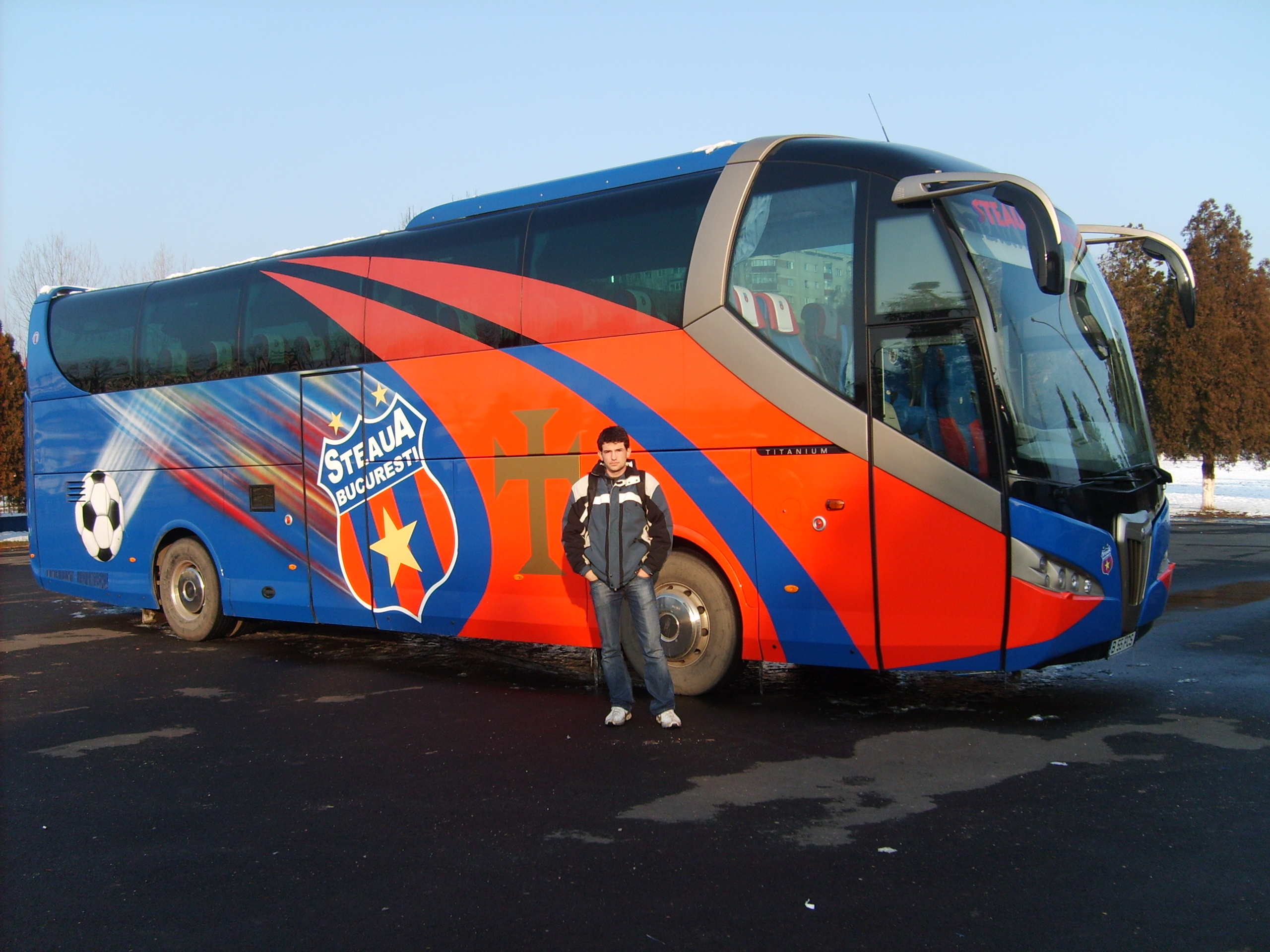 FC Steaua Bucharest bus for players.